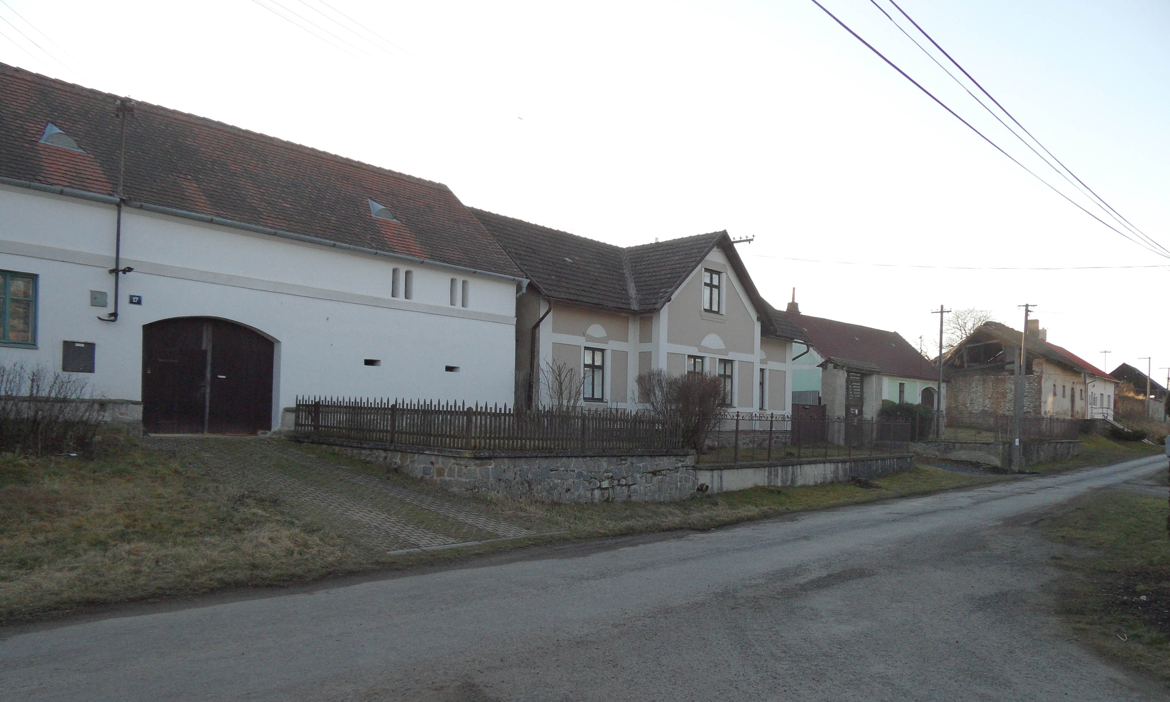 Sirákovice D. Houses along Main Road (View from Bell Tower), Havlíčkův Brod District, the Czech Republic.